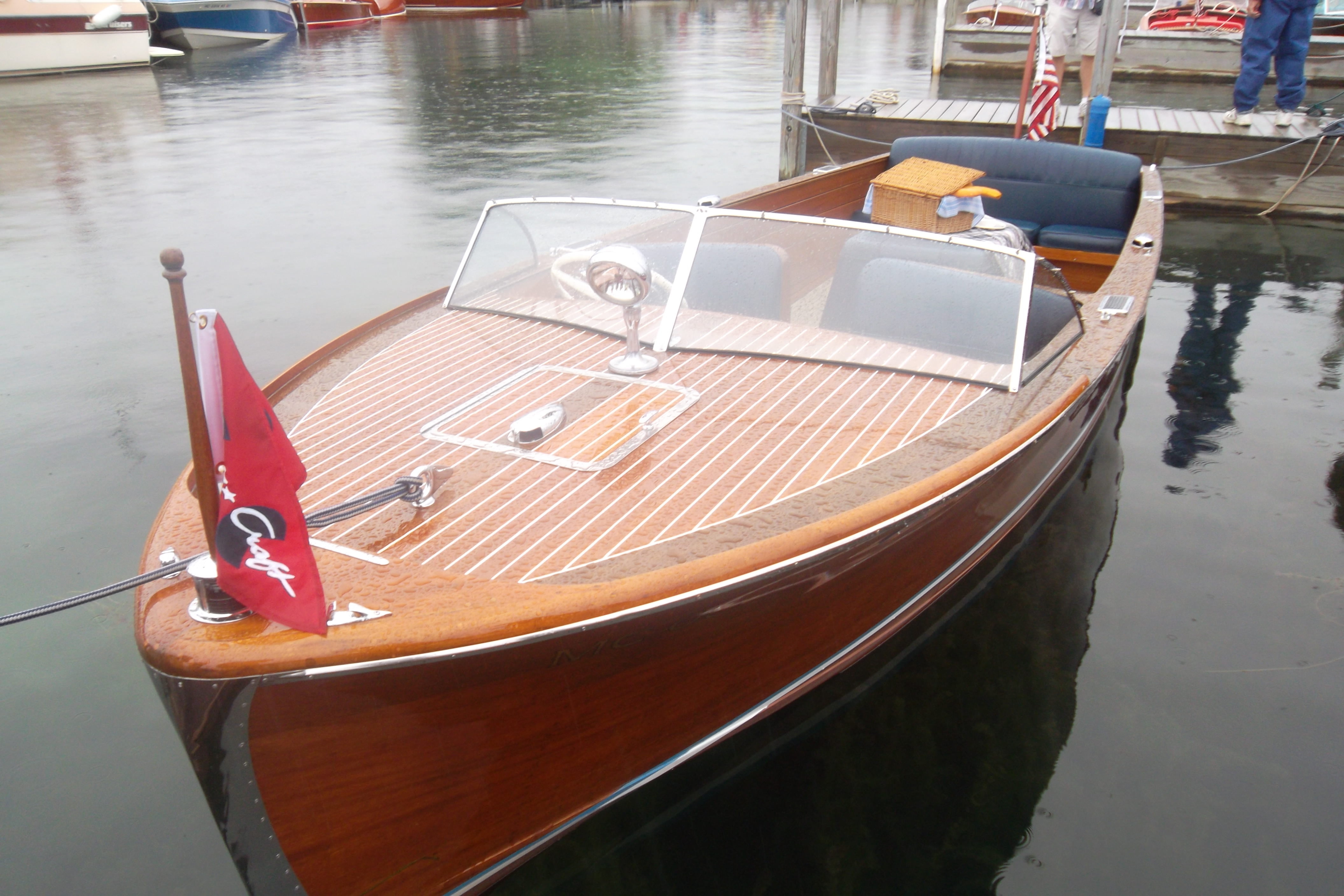 Les Cheneaux Antique Wooden Boat Show 2011